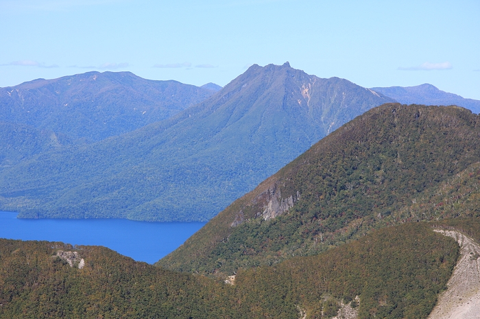 Mount Eniwa seen from the SSE. Mount Izari in the left background. Taken from Mount Tarumae.